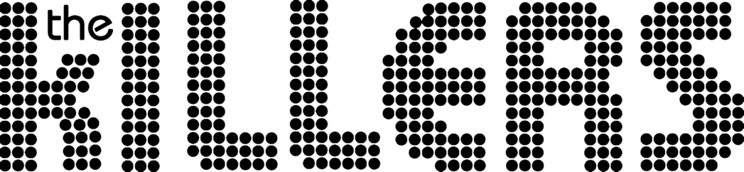 It's a The Killers' logo that I made with a font created by mine.